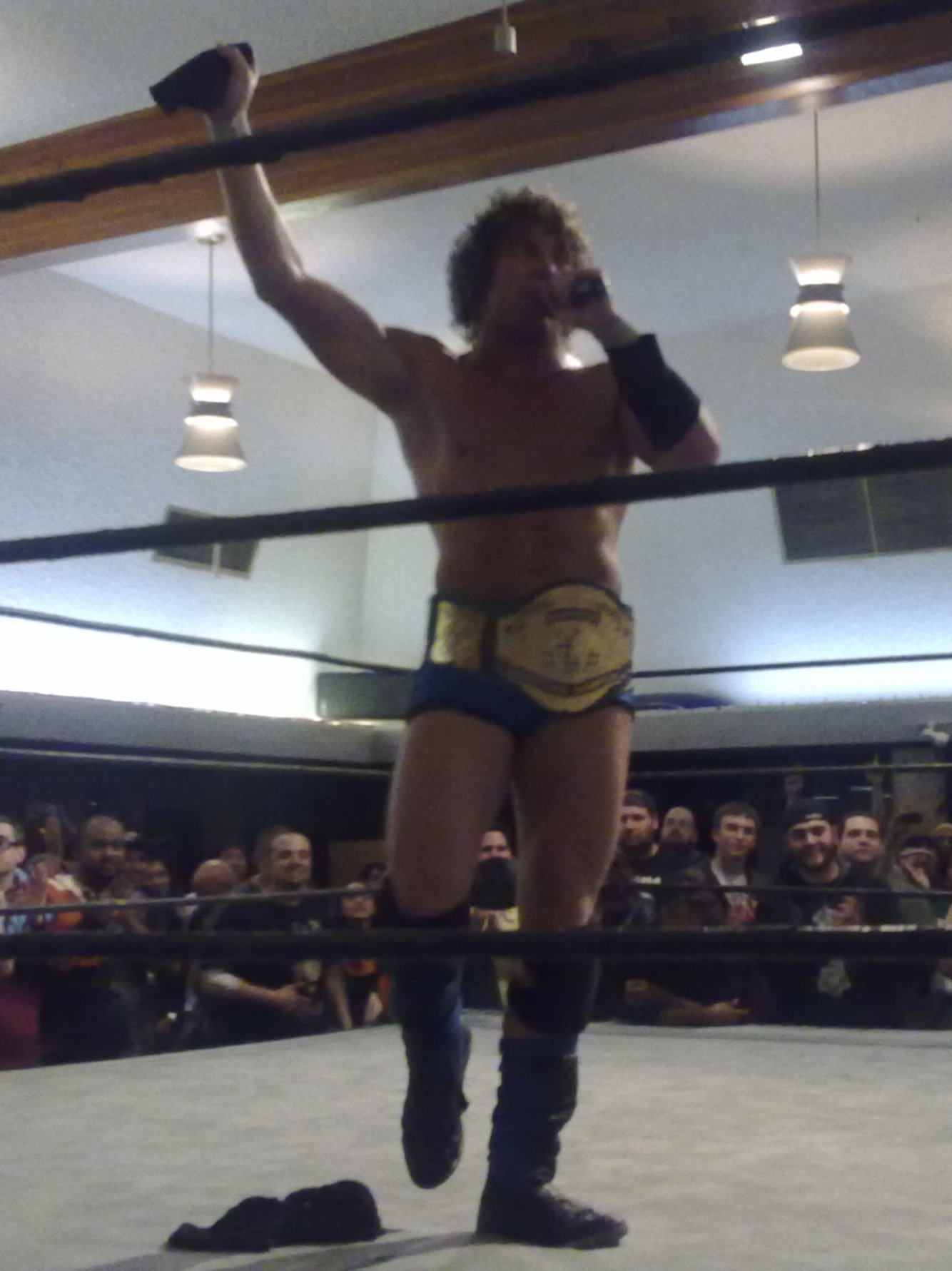 Professional wrestler Kenny Omega after winning the Battle of Los Angeles and the PWG World Championship